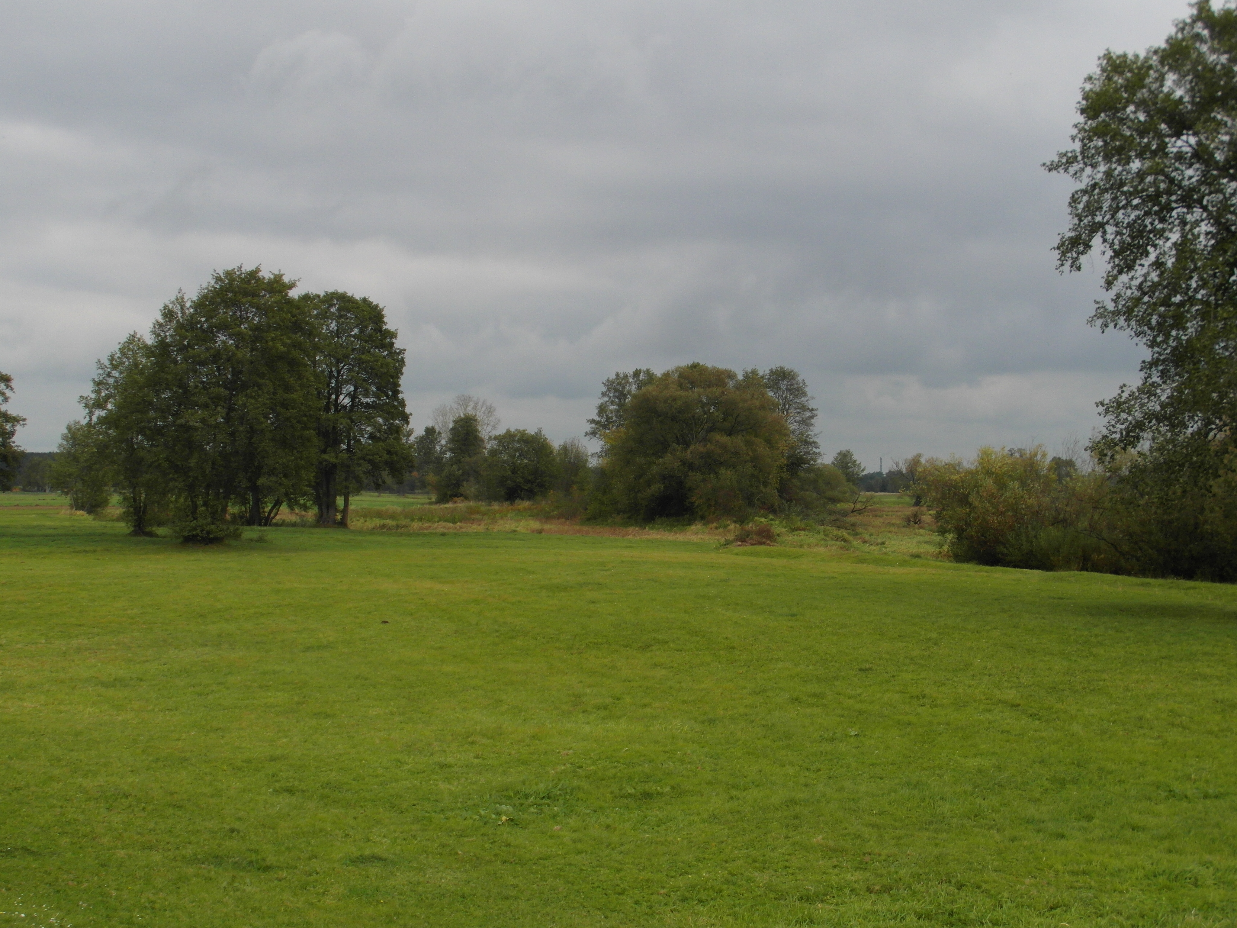 Gulczewo (powiat wyszkowski), meadow sby Bug river